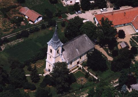 Tiszaszőlős, Hungary, aerialphotgraphy This is a photo of a monument in Hungary, Identifier: 6076